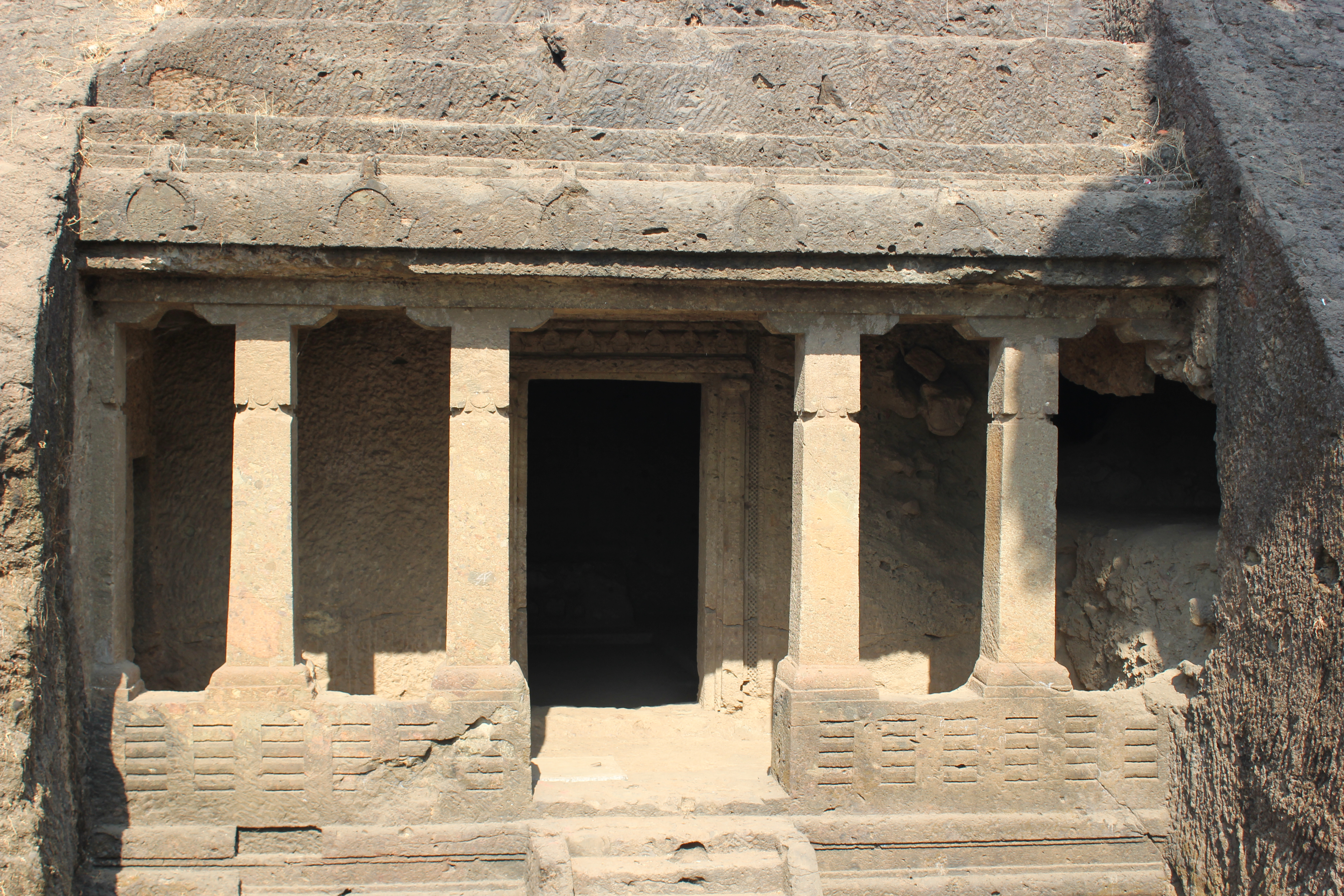 Mahakali caves first gate view